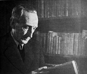 Inazio Maria Etxaide, basque writer.